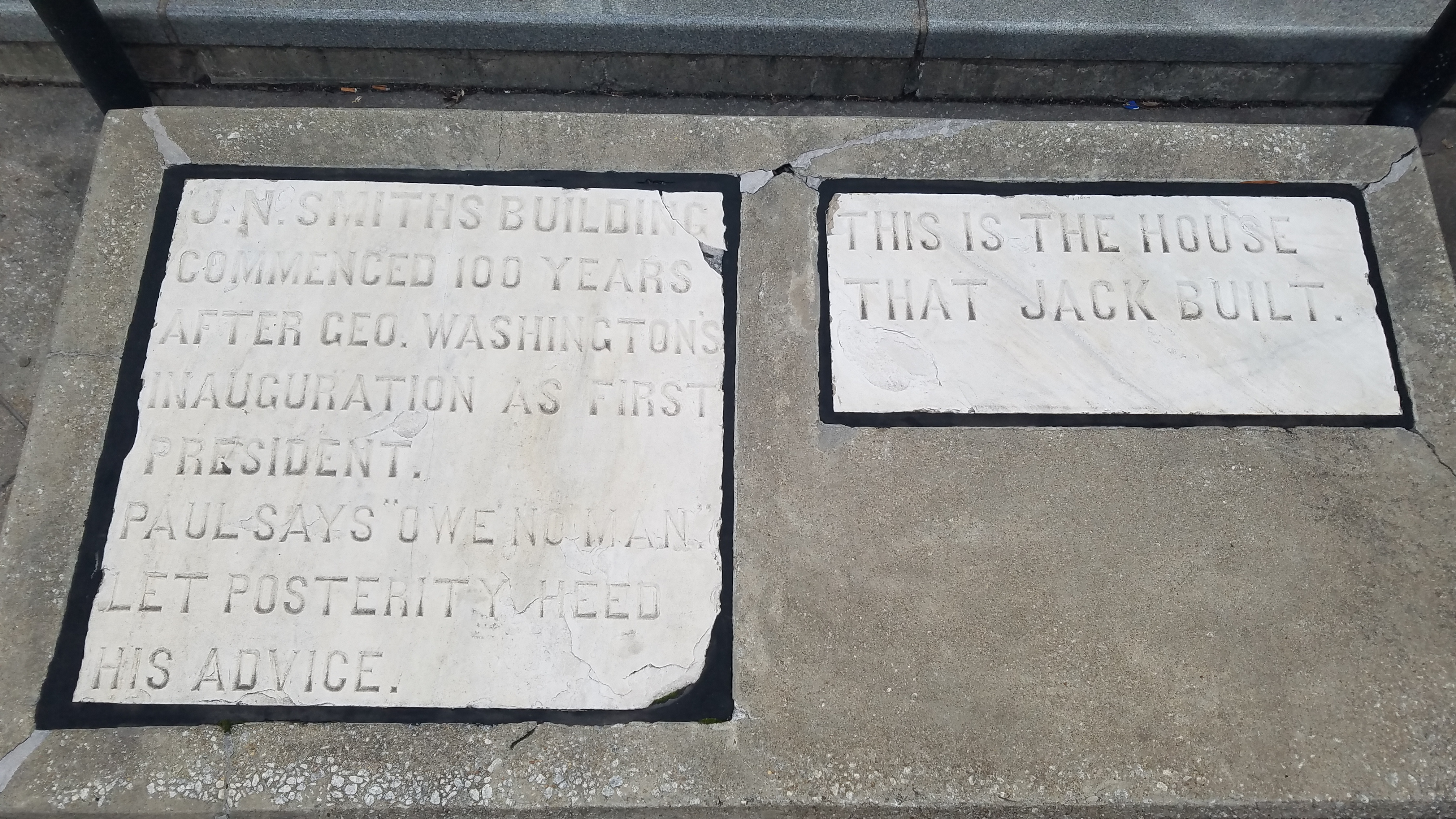 Plaque outside the Peachtree Center MARTA station honoring Jasper Smith's building.